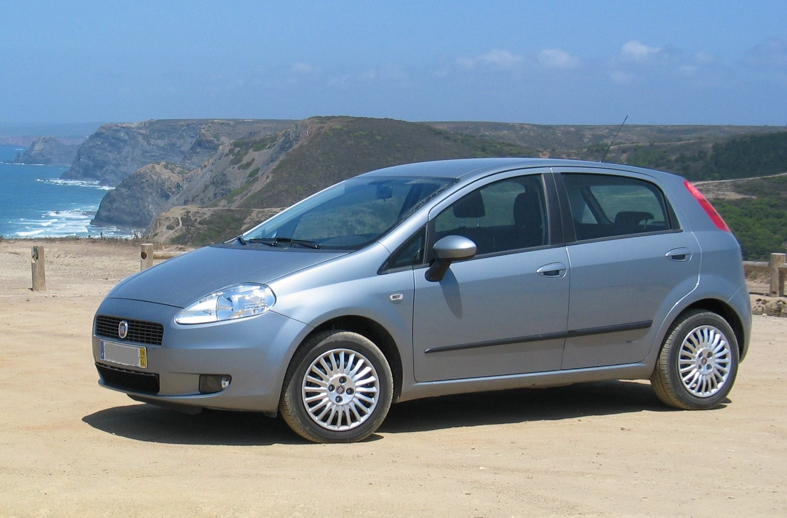 Fiat Grande Punto, codenamed Project 199, 5-door version (2006-2009)